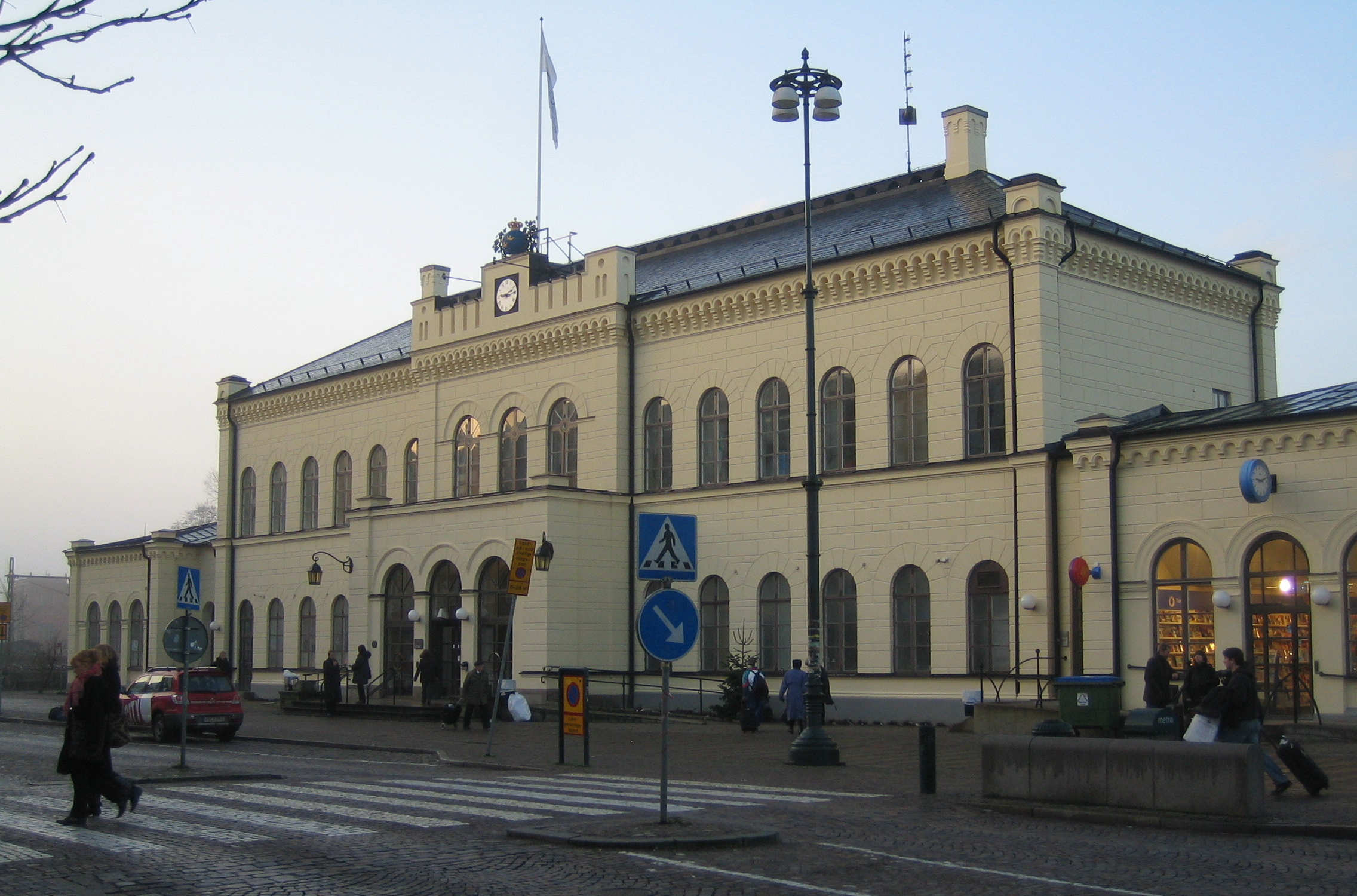 Main railroad station in Lund, Sweden.